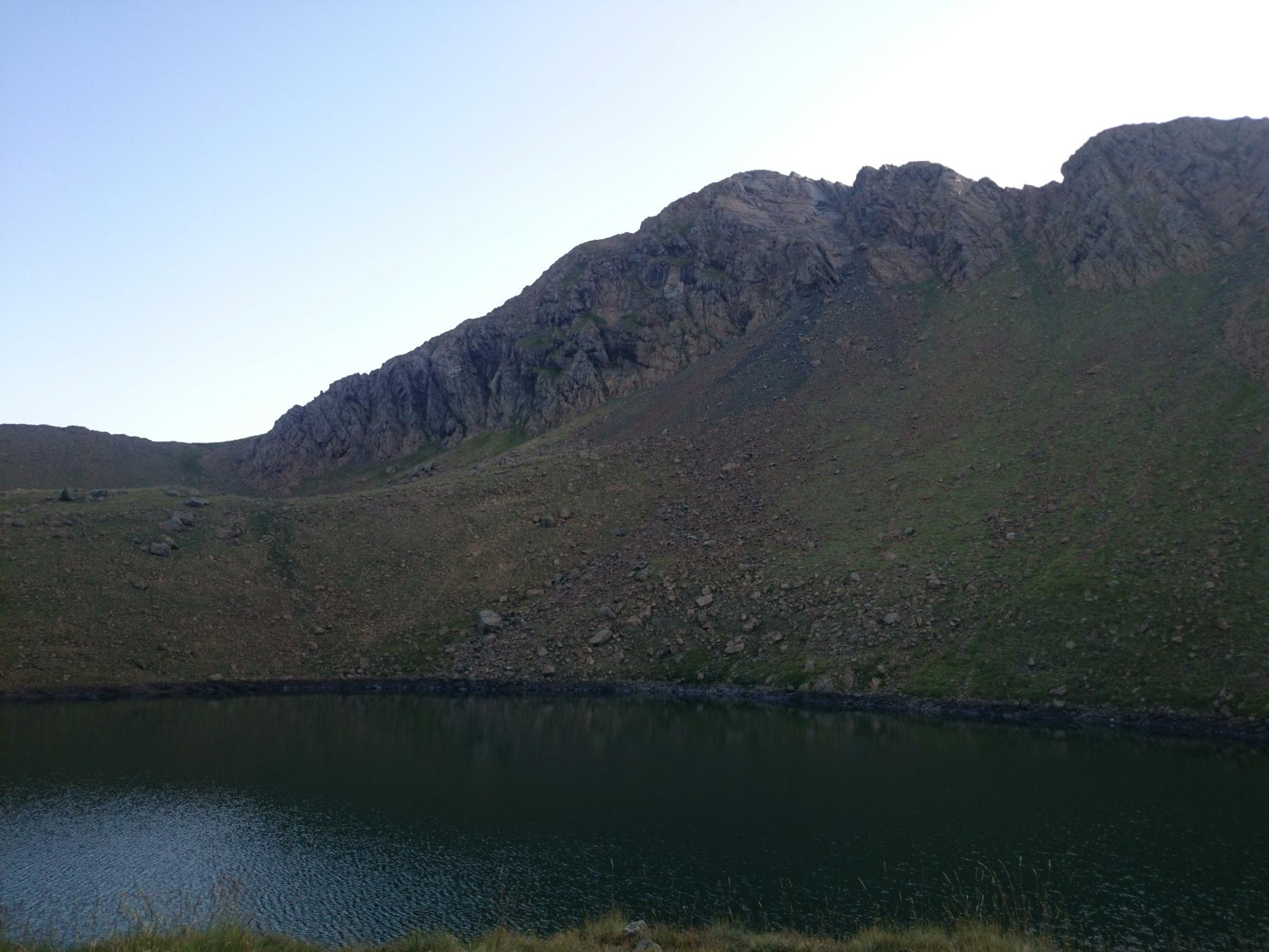 Lake just below the peak of Valamara mountain in South East Albania